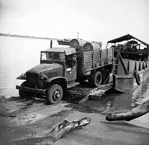 Troops of HQ COMMAND, Australian Army Service Corps, 6 Division: Transporting stores to forward areas. When bridges are down, where practicable, Australian landing craft are used to transport trucks loaded with stores to points beyond the washaways. Location: CAPE WOM, WEWAK AREA, NEW GUINEA